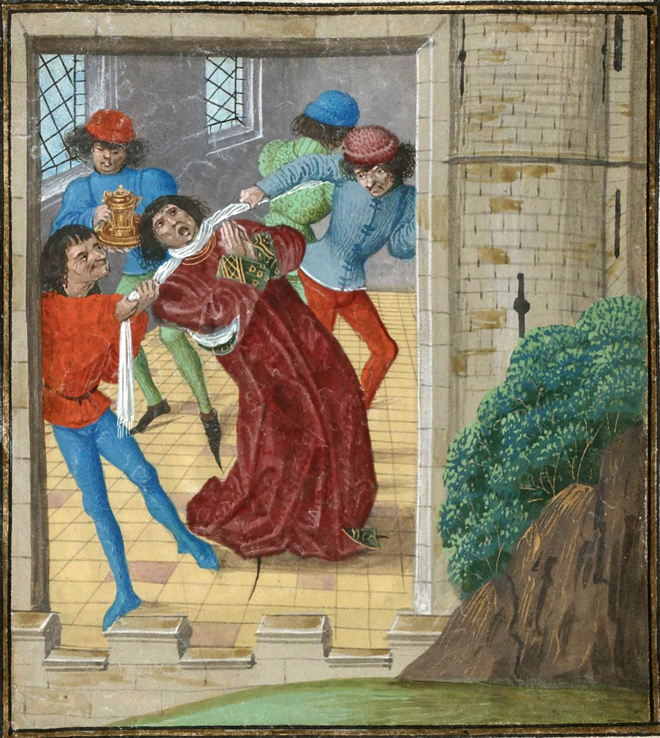 Thomas of Woodstock, Duke of Gloucester (1355–1397)